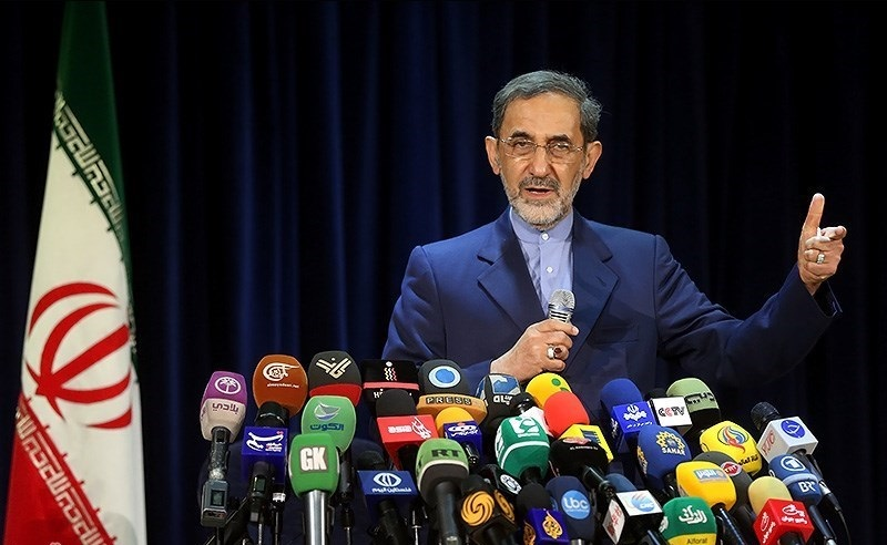 Ali Akbar Velayati announcing his candidacy for 2013 Iranian presidential election